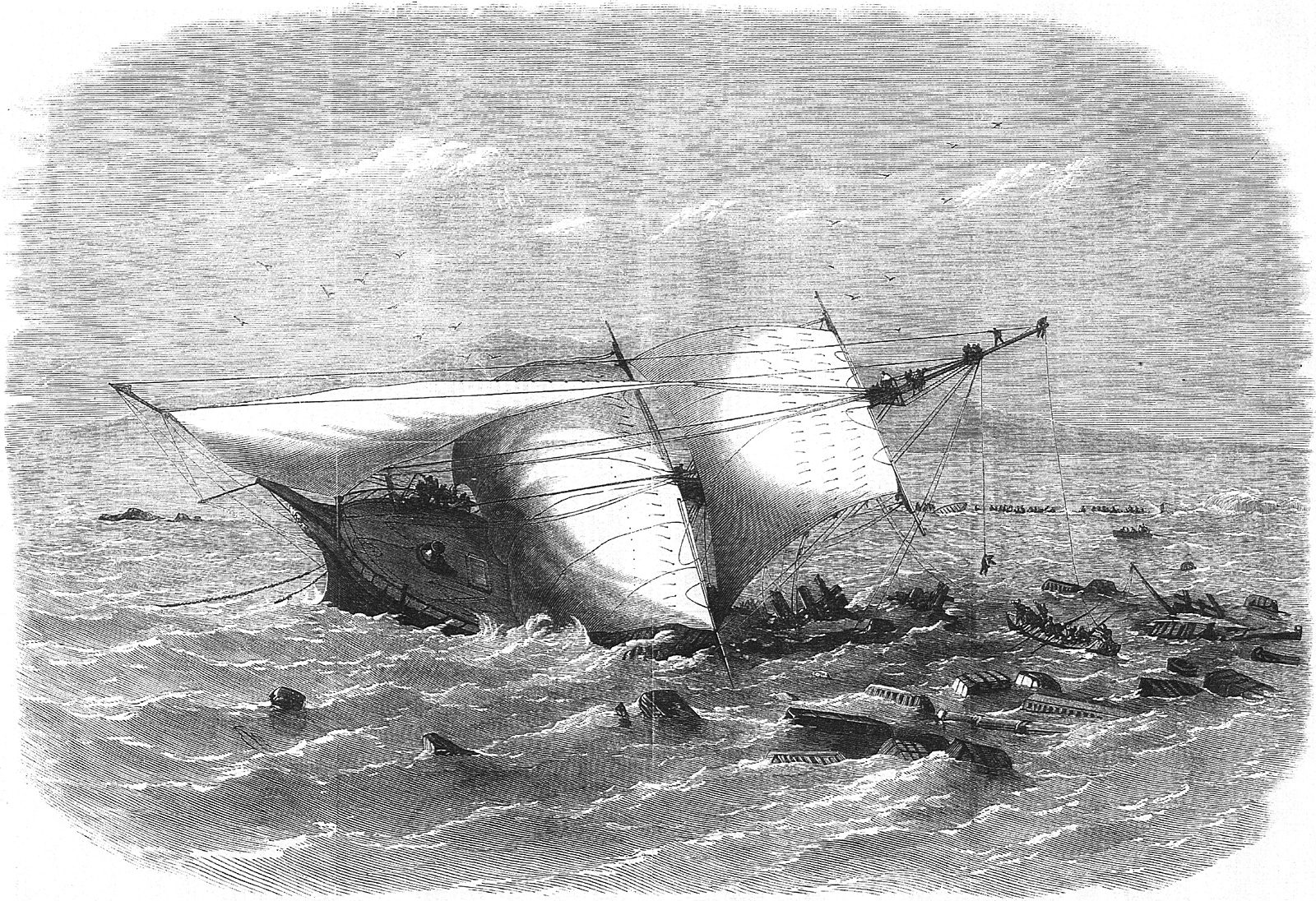 The wreck of the Bombay mail-steamer Carnatic at Shadwan, Sha'b Abu el-Nuhas, Gulf of Suez, Egypt